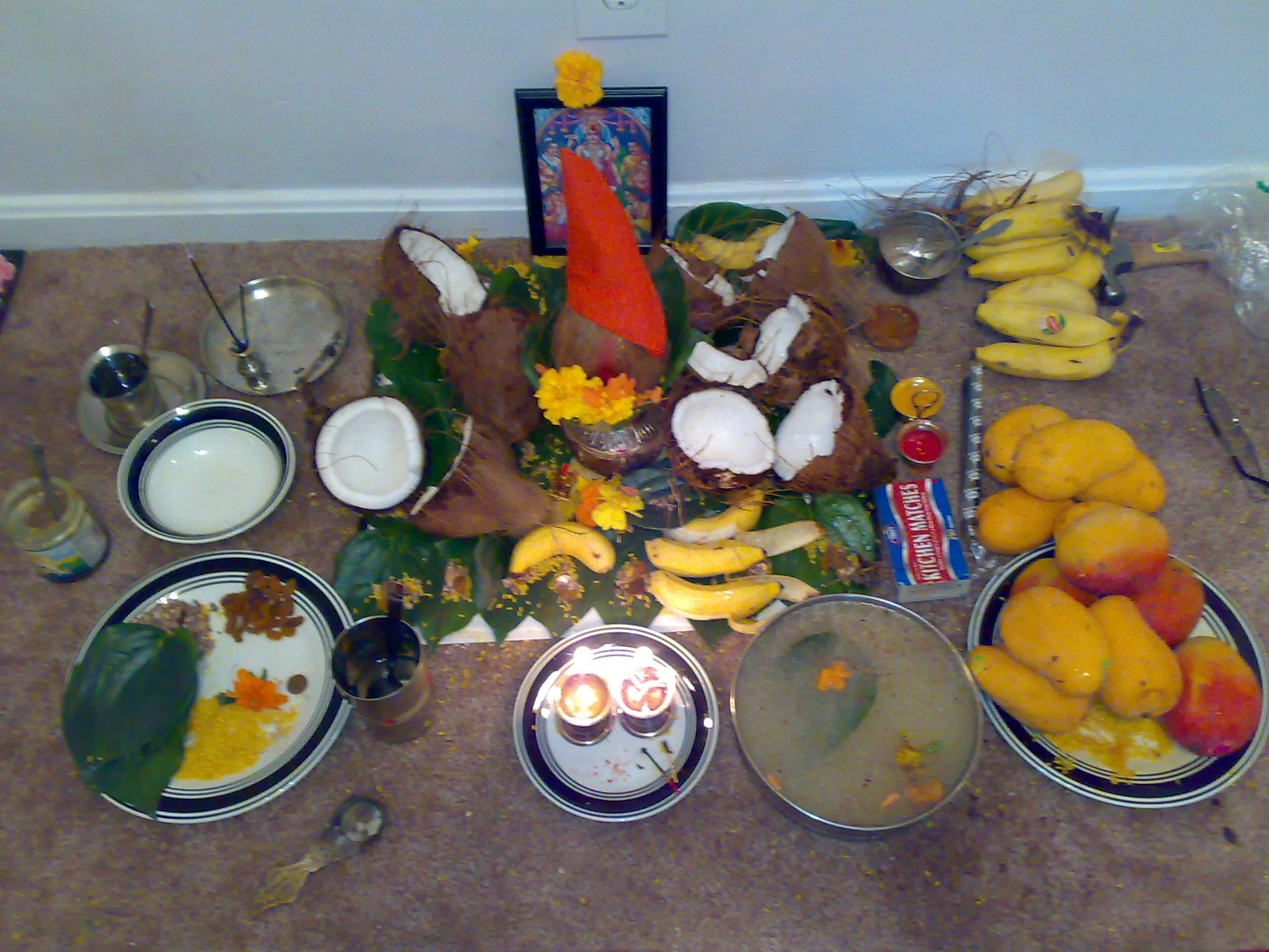 A snapshot of Satyanarayana Puja performed at home.